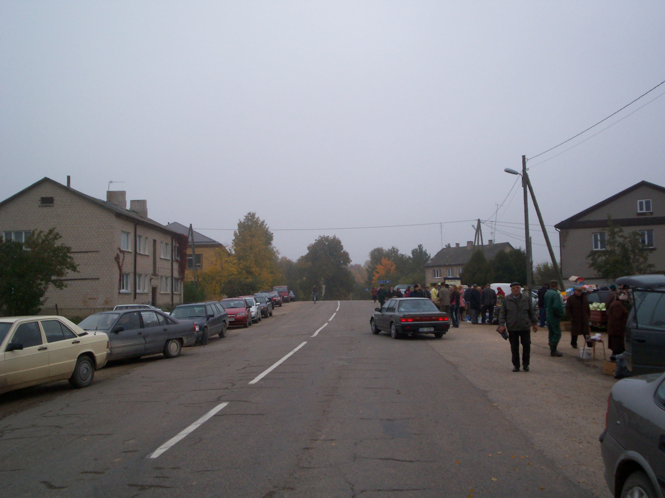 Abrene Street in ViļakaLatviešu: Abrenes iela (P35) Viļakā